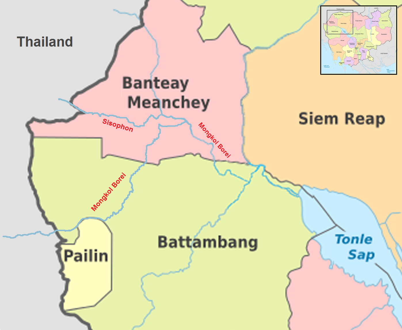 Mongkol Borei river map